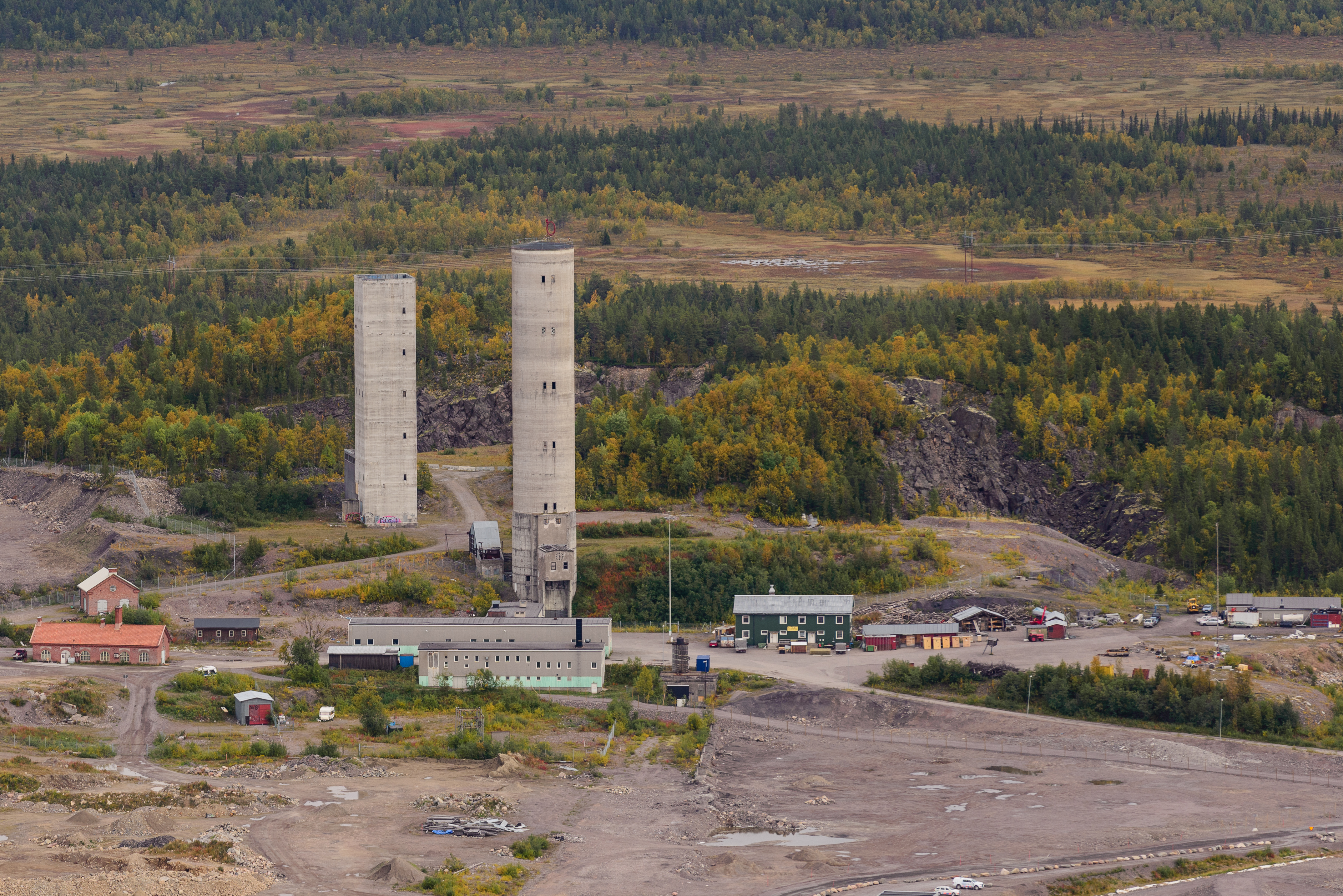 The site of the former Tuolluvaara iron mine. Kiruna, Sweden.